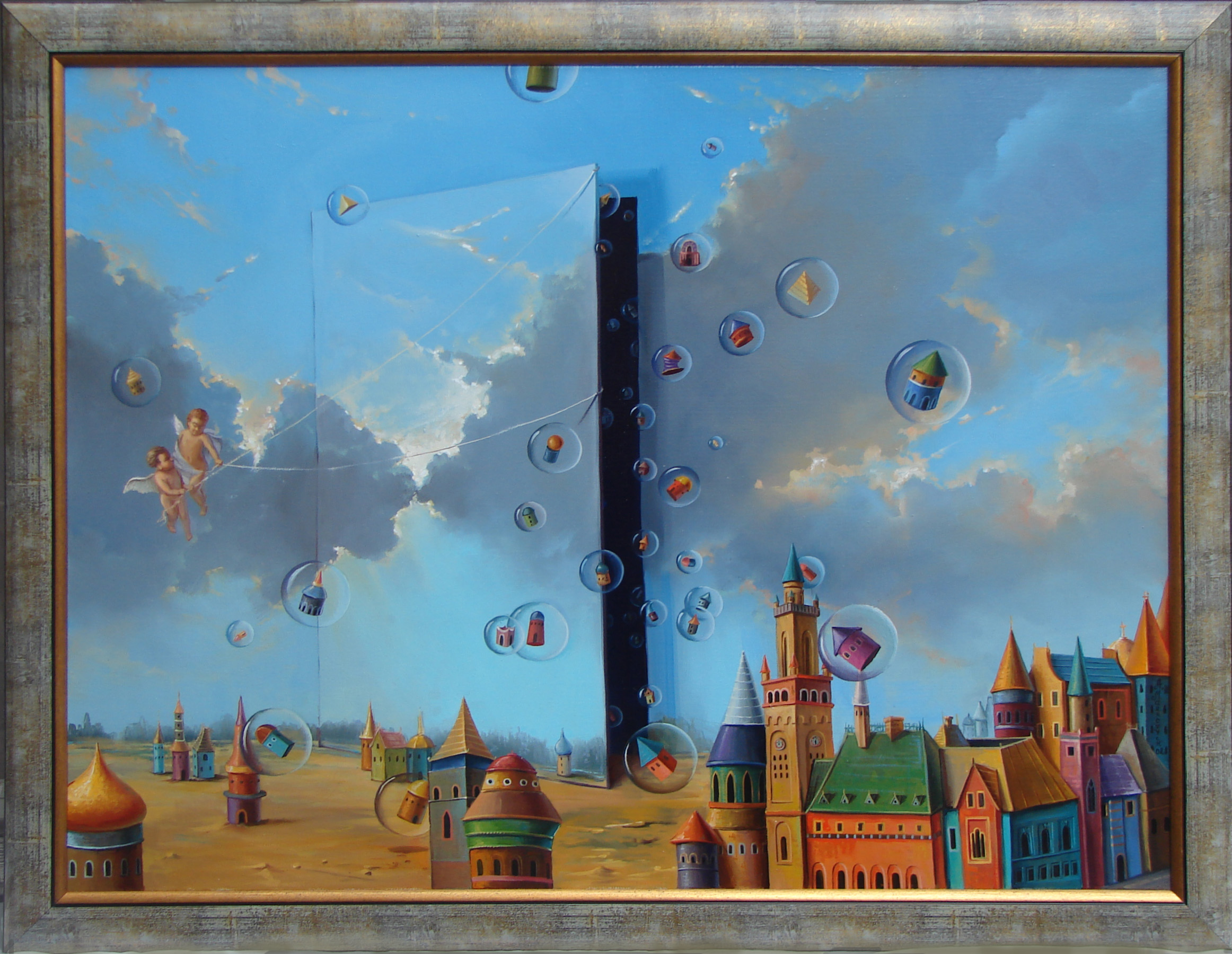 Oil-painting on linen, 2008. 60x80.